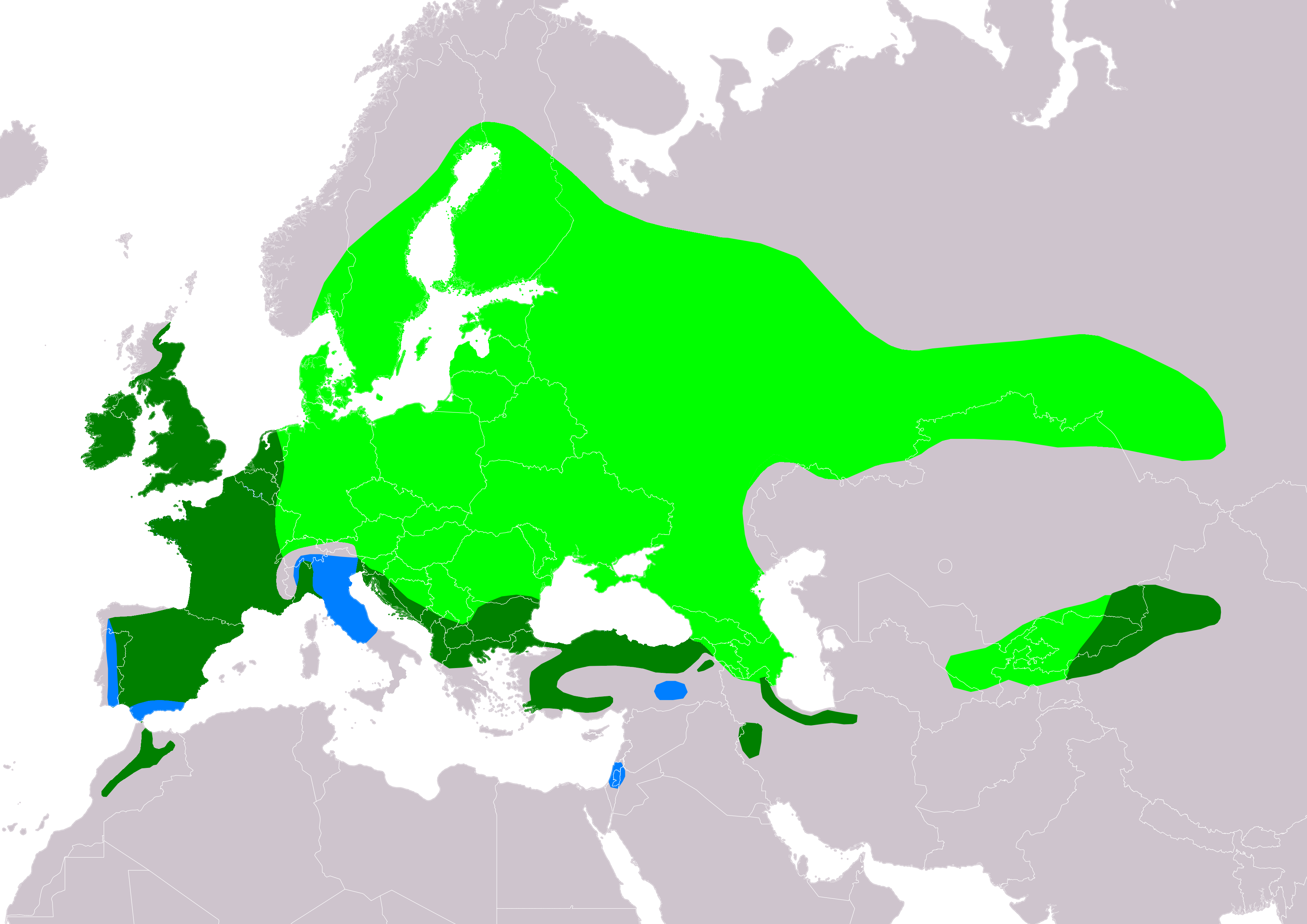 Distribution map of Stock Dove (Columba oenas) according to IUCN version 2019-2; key: Legend: Extant, breeding (#00FF00), Extant, resident (#008000), Extant, non-breeding (#007FFF)